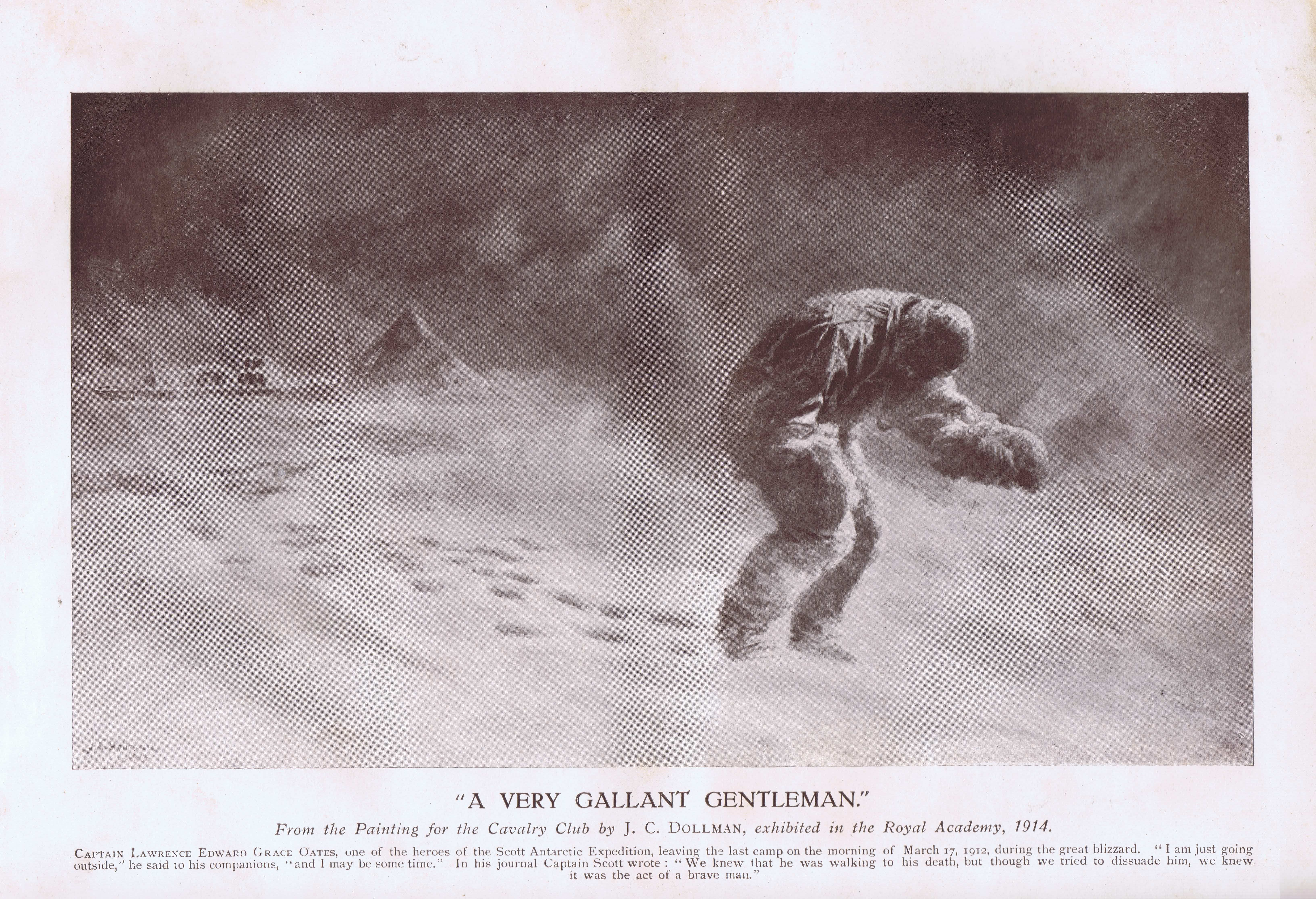 Print of the painting 'A Very Gallant Gentleman' by John Charles Dollman, from The Boy's Own Annual, 1913-1914 (opposite page 41 of part 11). Not visible on this scan is the credit: "By permission of Messrs. Thos. Forman & Sons, Nottingham, owners of the copyright and Publishers of the Art Coloured Plate)."